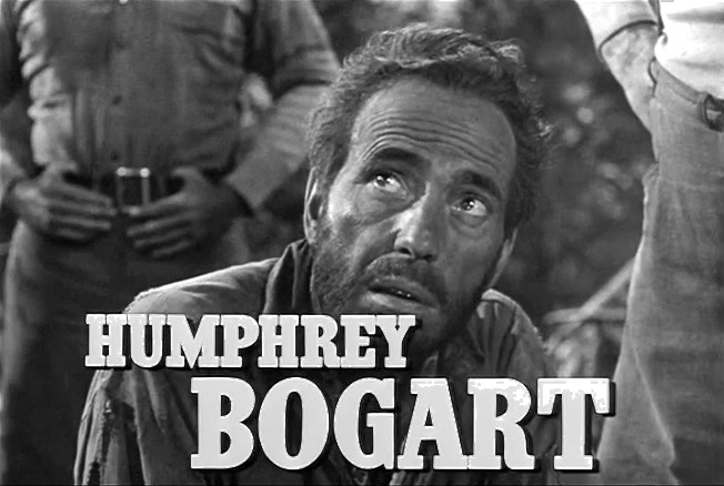 Cropped screenshot of Humphrey Bogart from the trailer for the film The Treasure of the Sierra Madre.